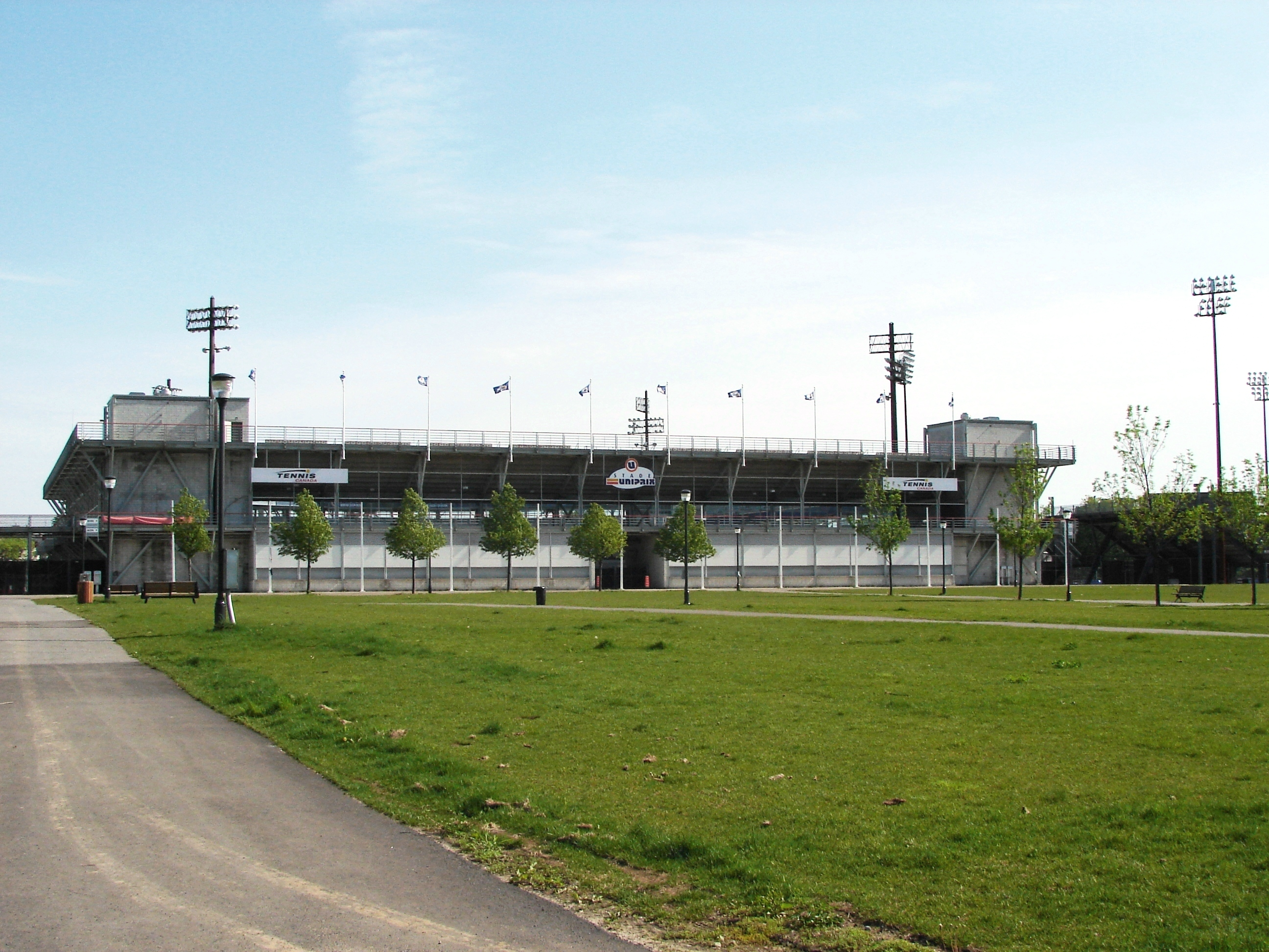 Author: Miguel Tremblay Date: May 29 2006 Source: Photo taken by me on a walk into the Jarry parc. Place: Jarry Stadium in the Jarry parc in Montreal, Québec, Canada.